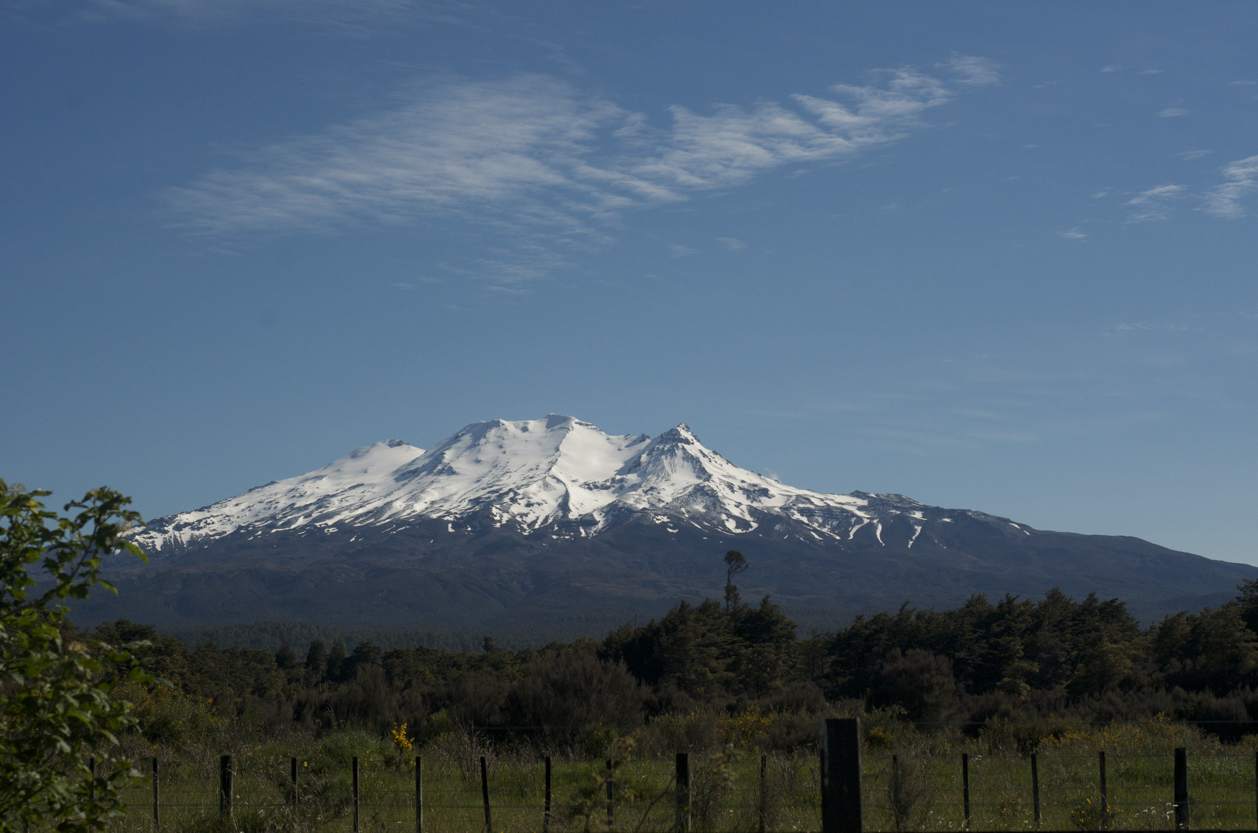 A picture of Mount Ruapehu taken from Rangataua